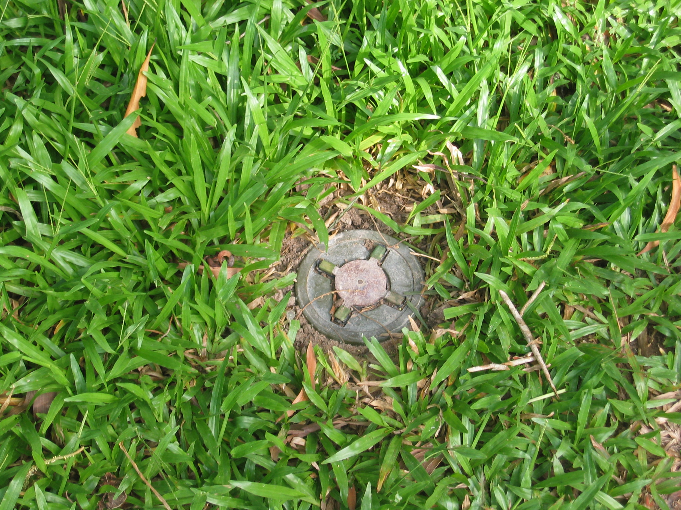 Russian-made PMN-2 anti personnel mine in Cambodia